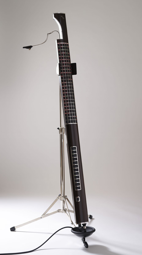 An Eigenharp.